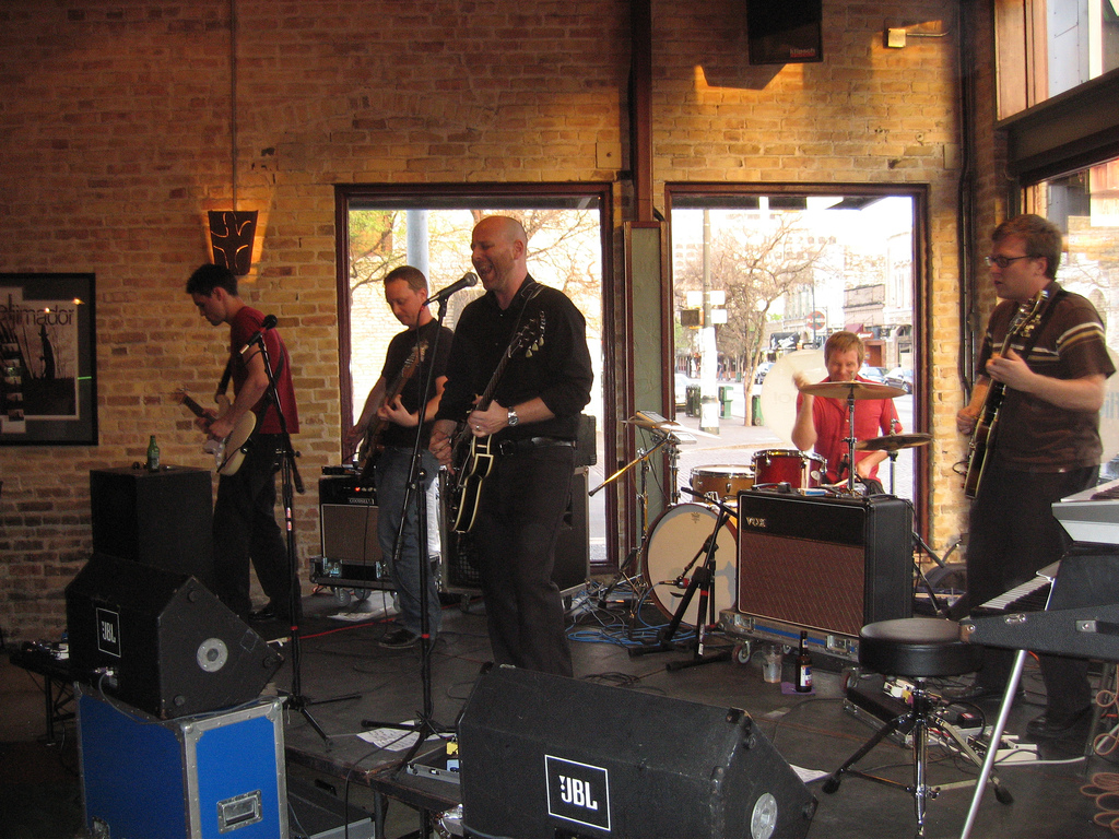 I Love You But I've Chosen Darkness performing at Iron Cactus on Sixth Street in Austin, Texas.